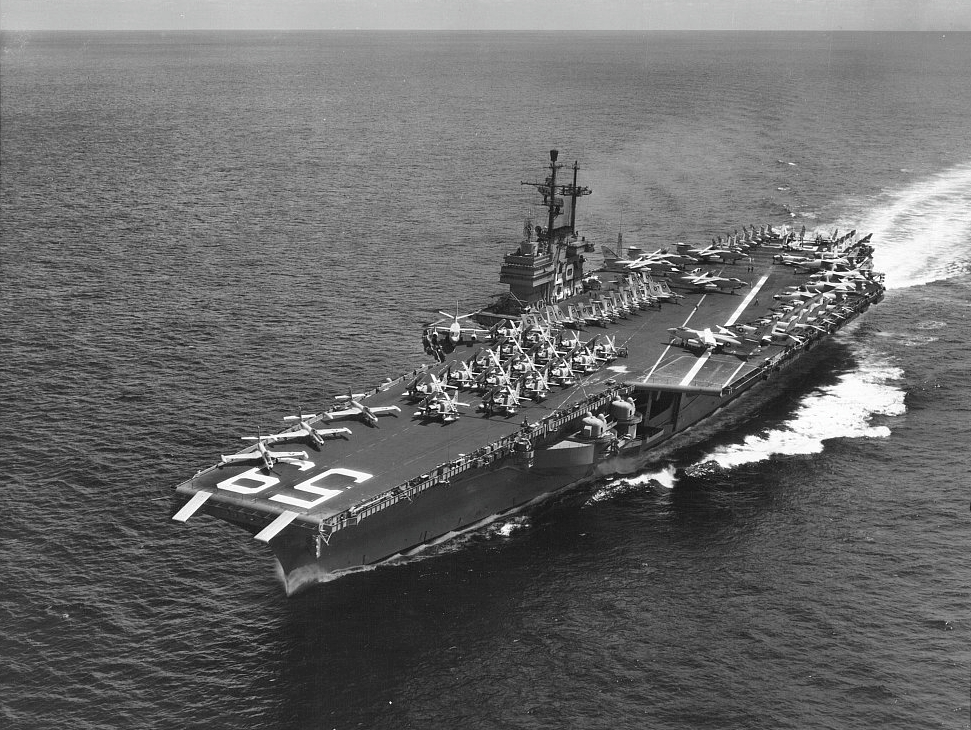 The U.S. Navy aircraft carrier USS Forrestal (CVA-59) underway at sea in 1957. Forrestal, with assigned Carrier Air Group 1 (CVG-1), was deployed to the Mediterranean Sea from 15 January to 22 July 1957. From 16 August to 22 October, she took part in the NATO exercise "Strikeback" in the North Atlantic.